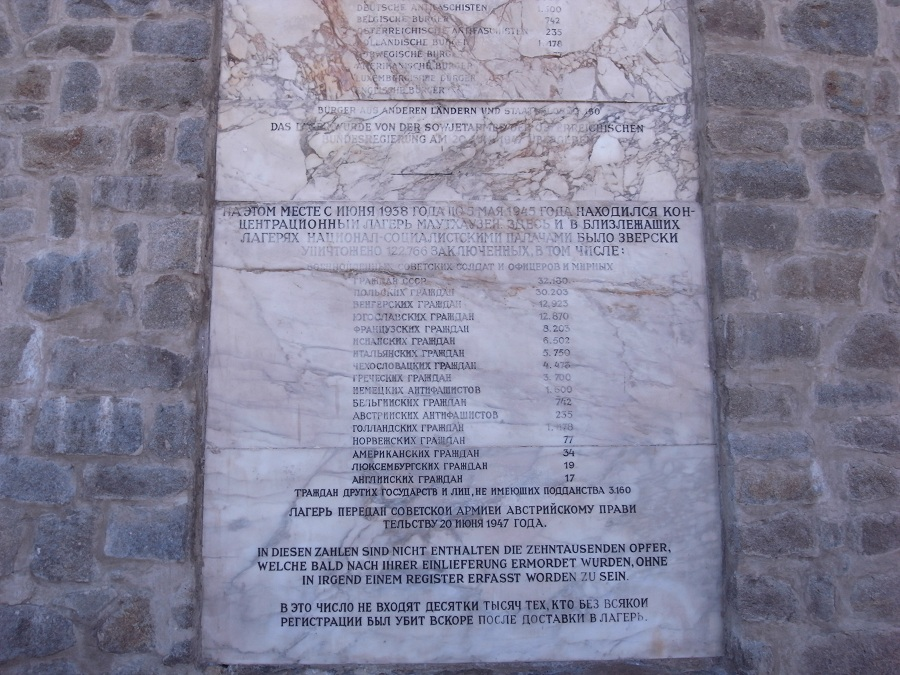 A memorial tablet of the main gate of the former concentration camp Mauthausen containing information on numbers of victims of different nations